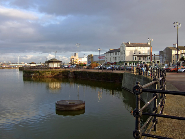 New Brighton lake